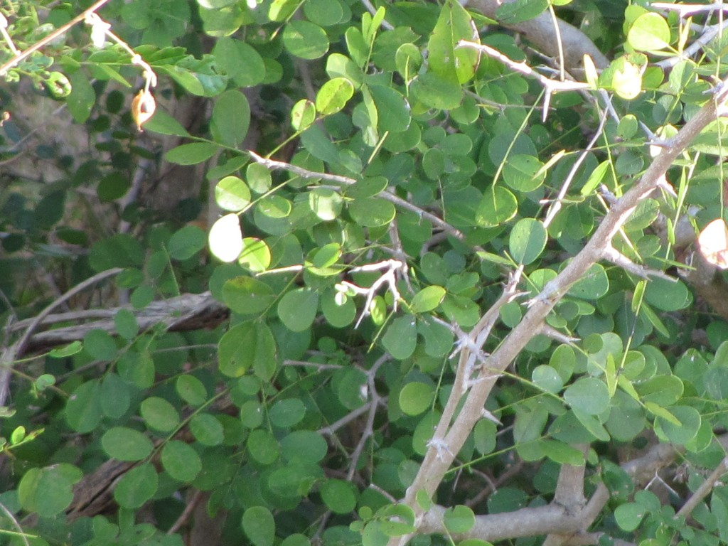 Dalbergia melanoxylon, seen in Kruger National Park, South Africa.